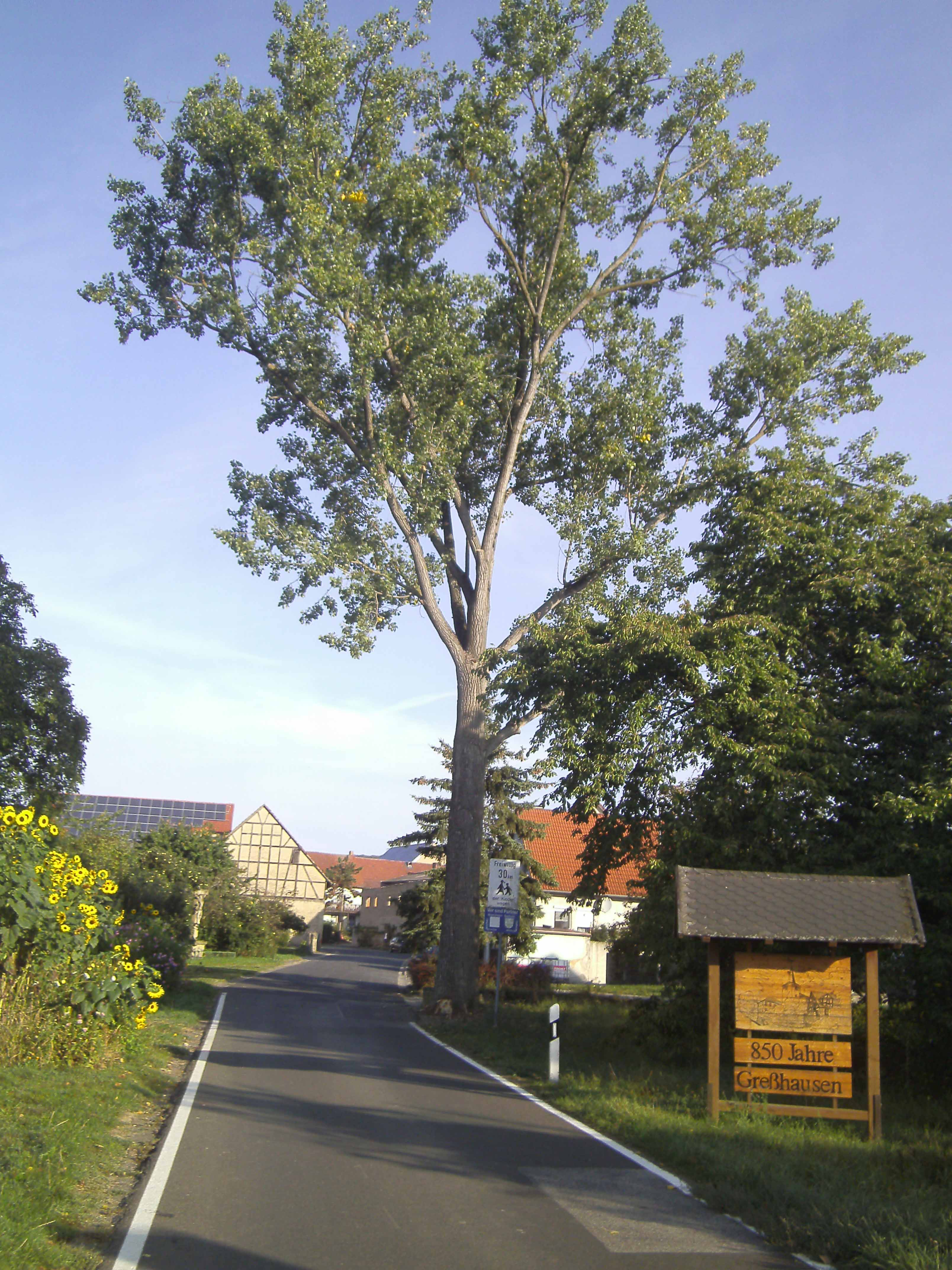 Entry to Gresshausen